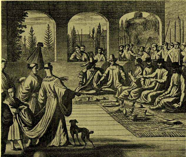 On the foreground two Japanese interrogators. Opposite four Jesuits of the second Rubino- group. Left of them Cristóvão Ferreira speaking to Hendrick Cornelisz Schaep